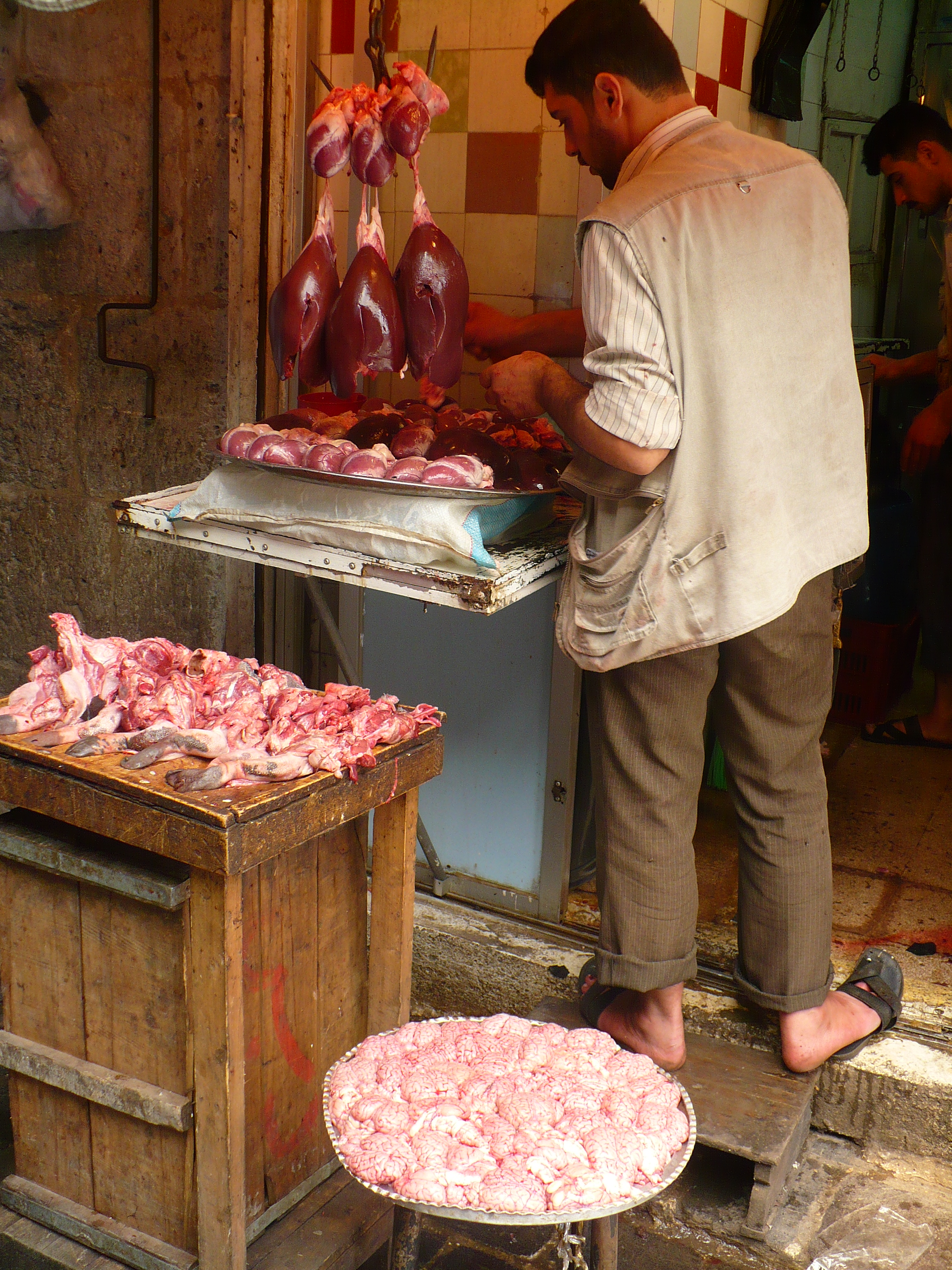 Syrian butcher in Aleppo